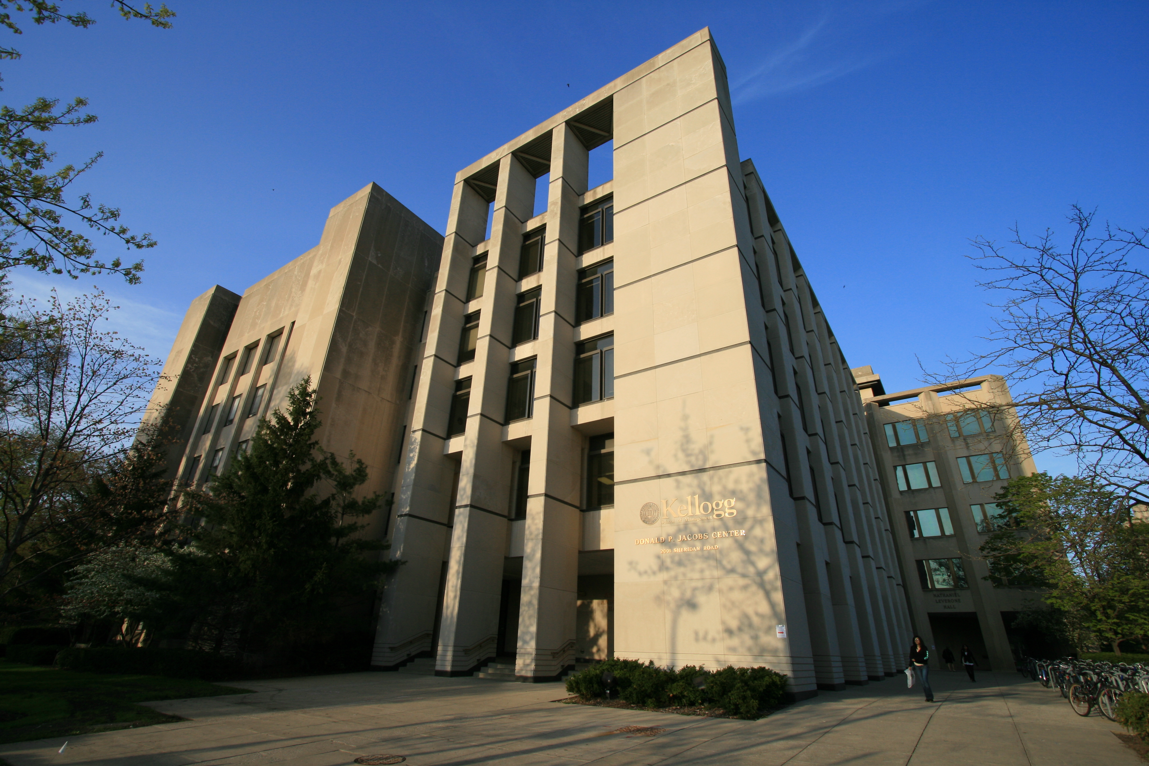 The entrance to the Kellogg School of Management's Jacobs Center